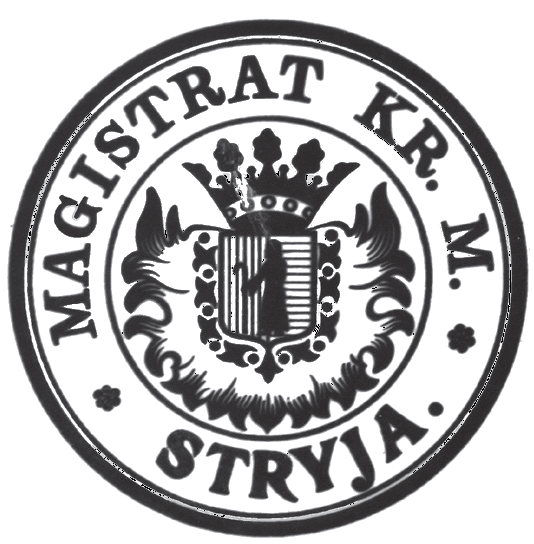 The old coat of arms of Stryi.